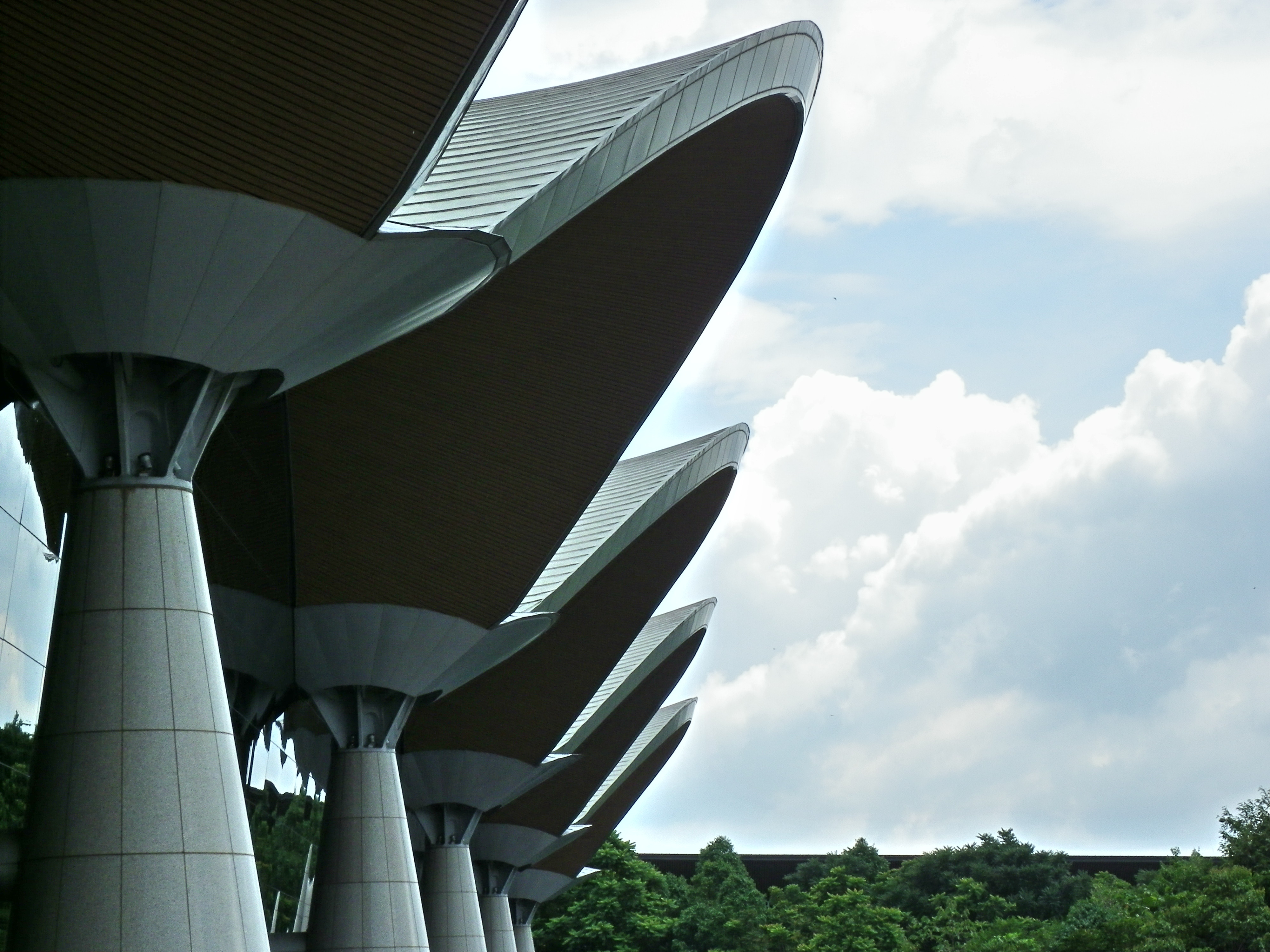 KLIA main terminal arch's